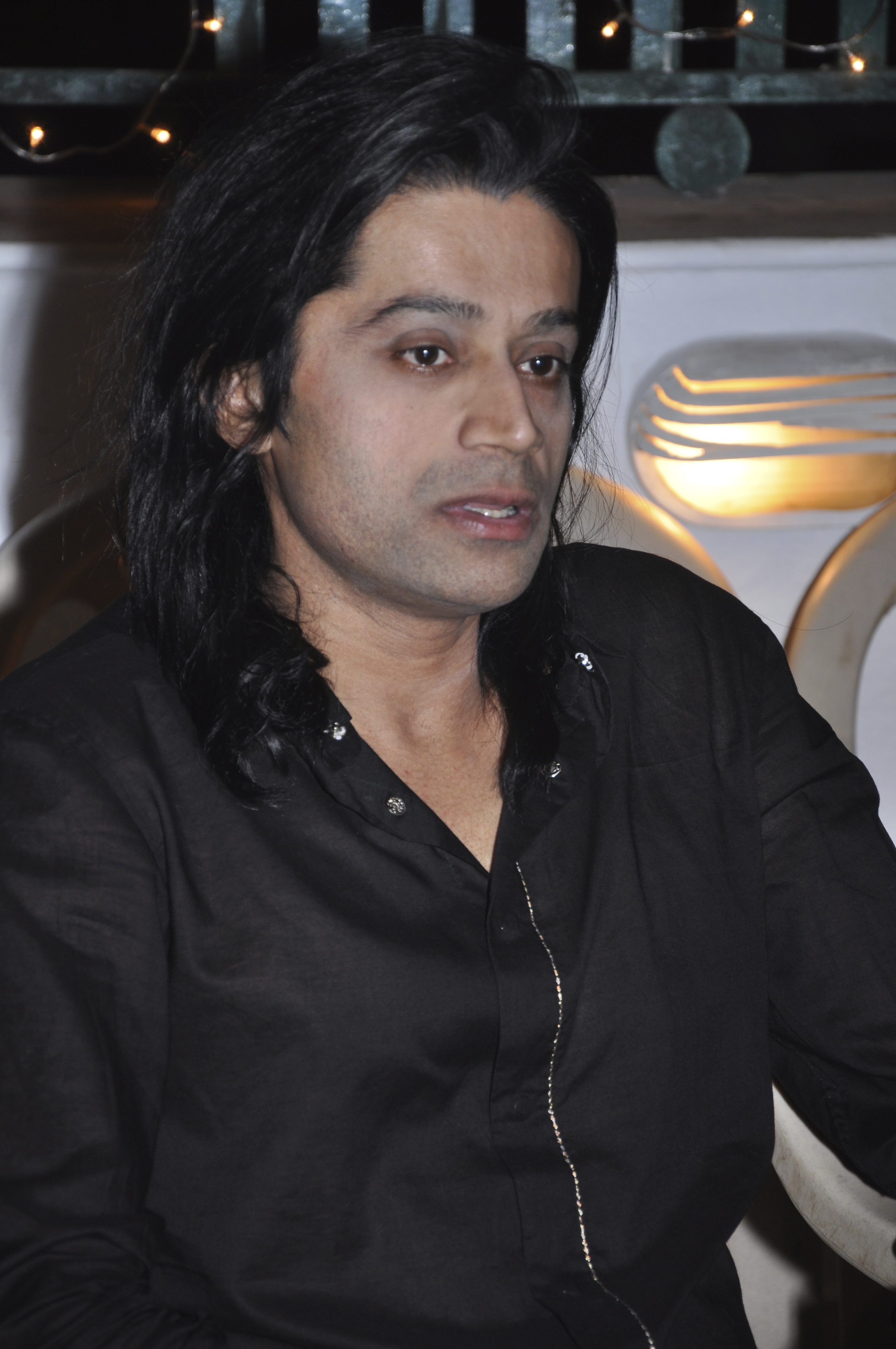 jackie vanjari at his studio